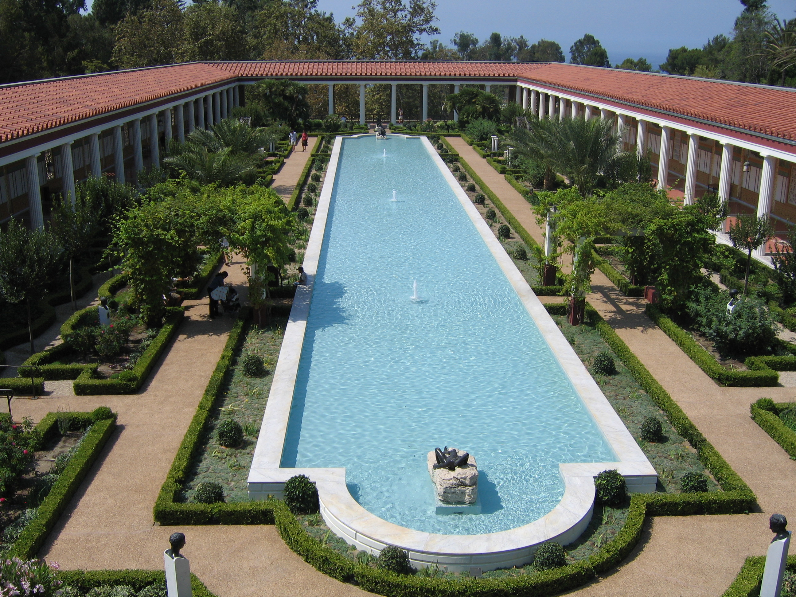 Pool at Getty Villa, Malibu, California